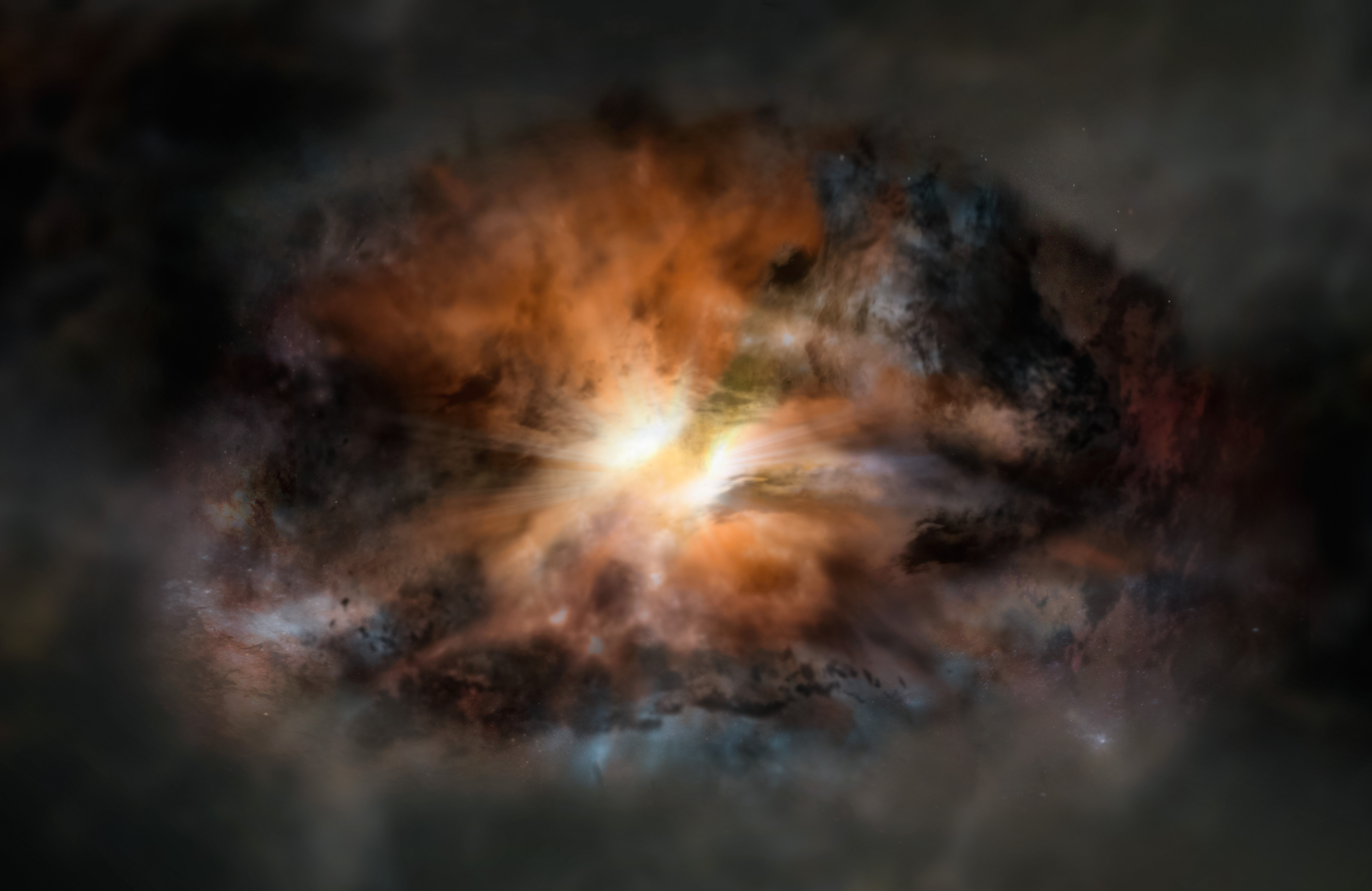 Artist impression of W2246-0526, a single galaxy glowing in infrared light as intensely as 350 trillion suns. It is so violently turbulent that it may eventually jettison its entire supply of star-forming gas, according to new observations with ALMA.